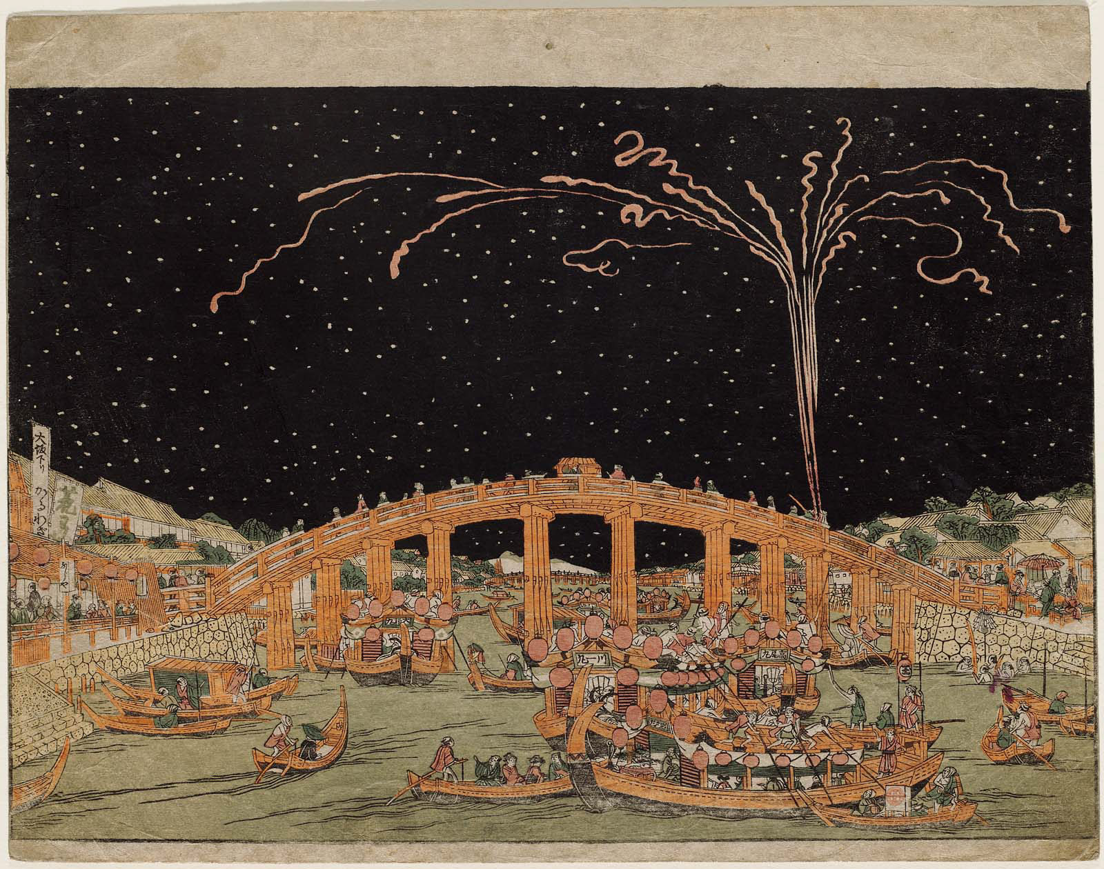 Perspective Print: Fireworks Like Flowers in Bloom at Ryōgoku Bridge in the Eastern Capital (Edo